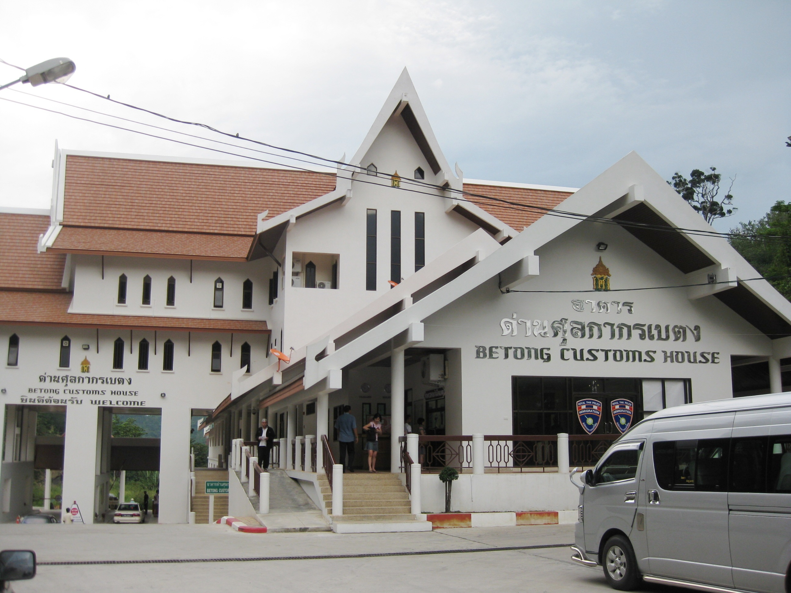 New Betong checkpoint launched on September 2010